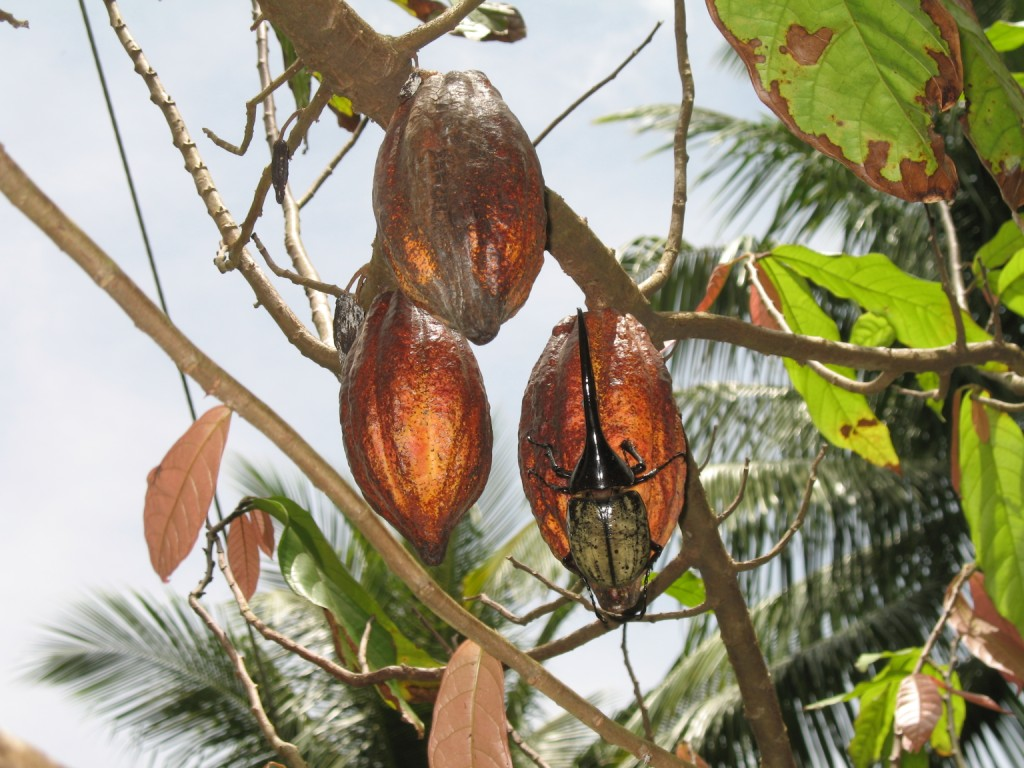 Dominica, natural island in the caribbean, bug on a cocoa-fruit